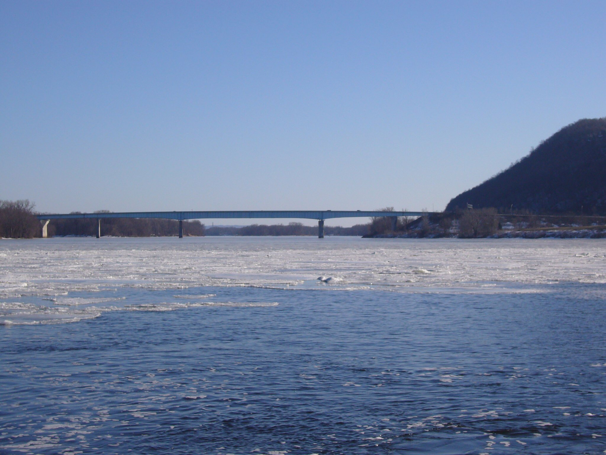 old interstate 90 Mississippi bridge